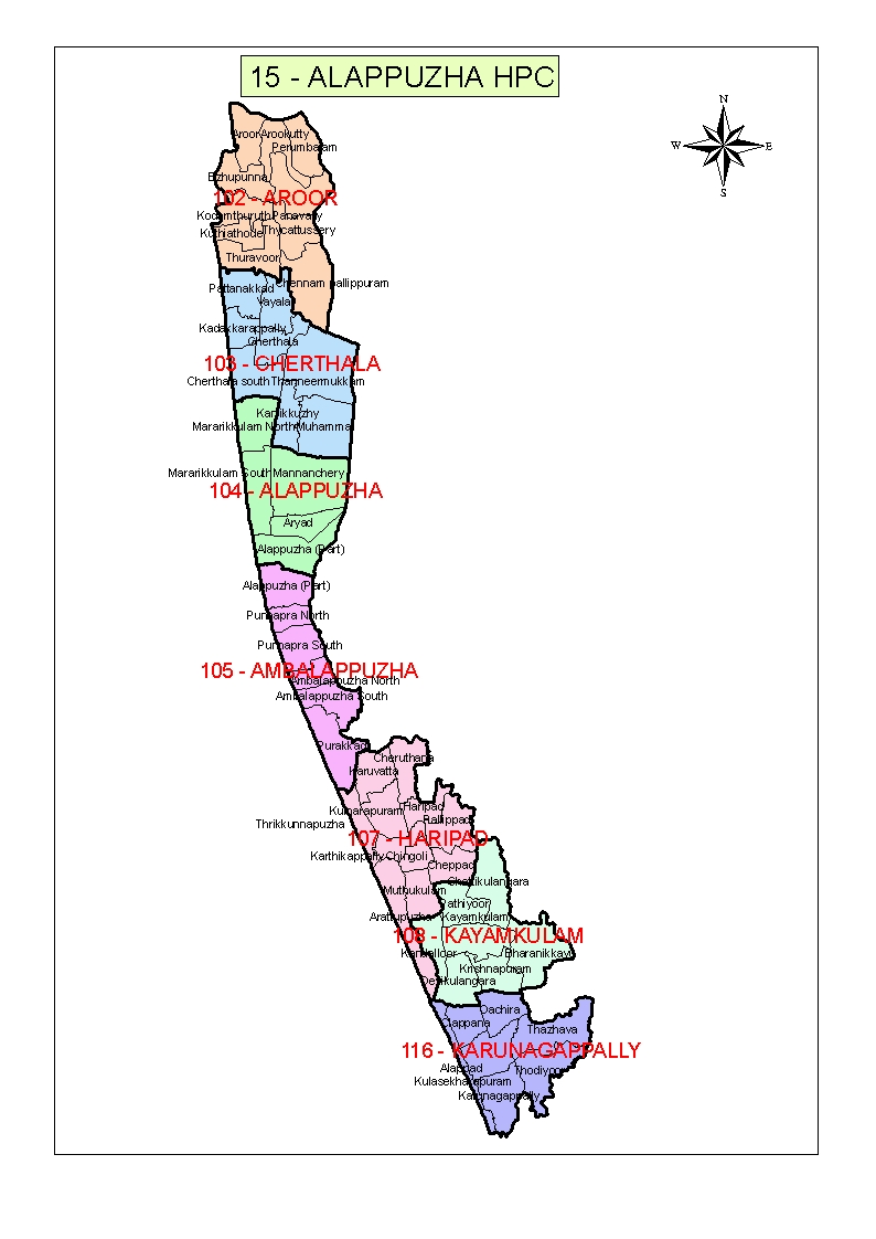 This is the map of Alappuzha Lok Sabha Constituency